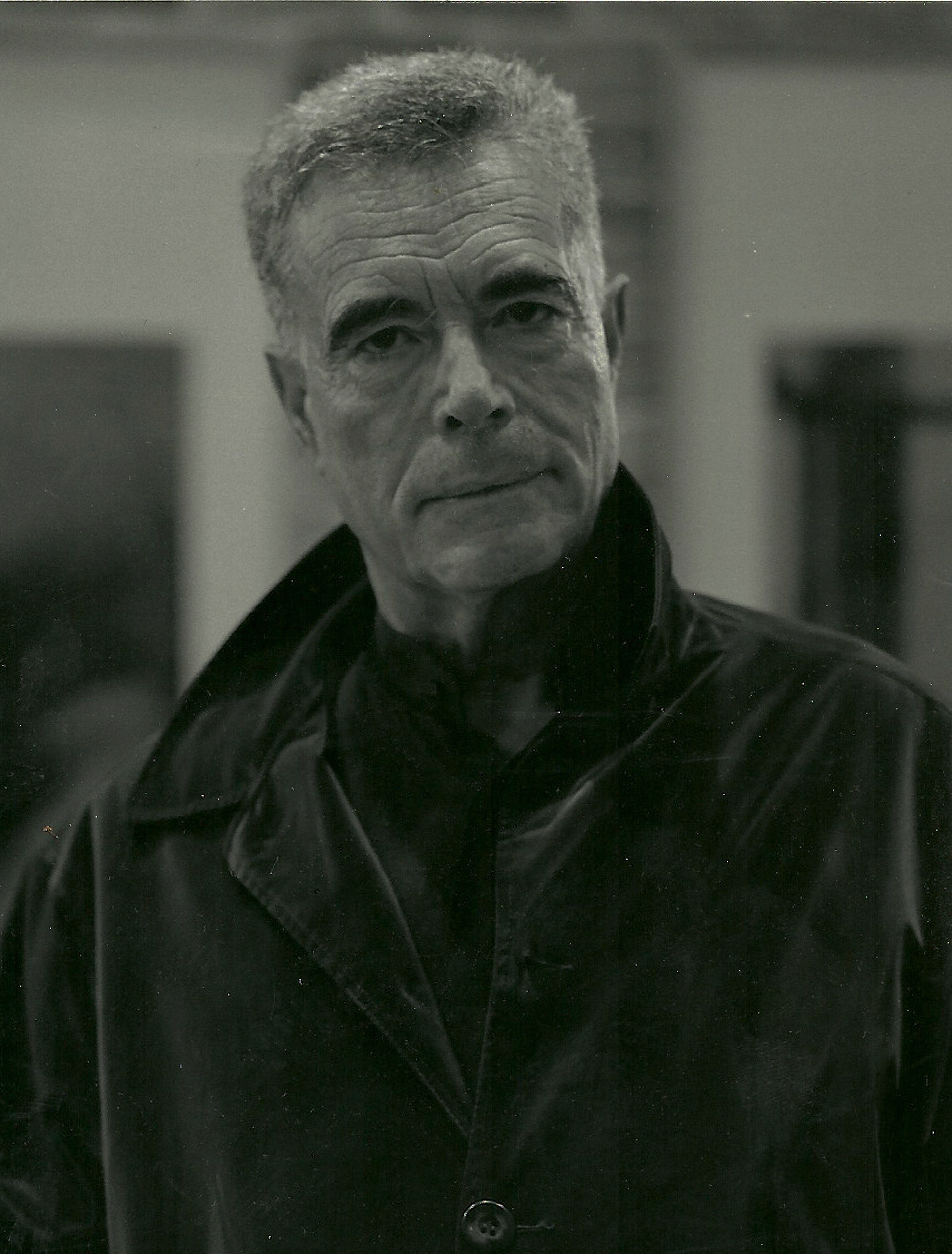 Portuguese filmmaker Ricardo Costa 63 years old